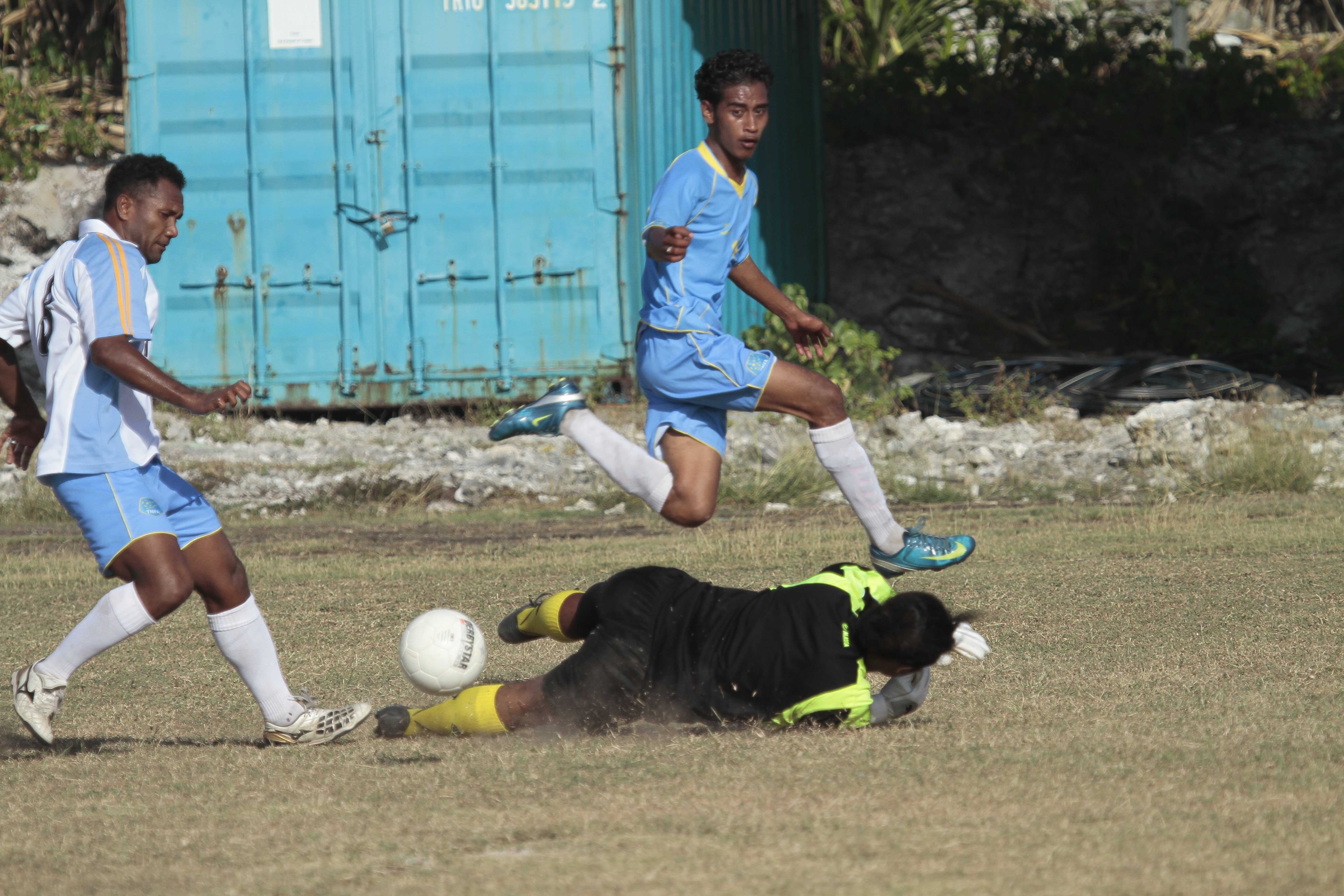 Petaia_02